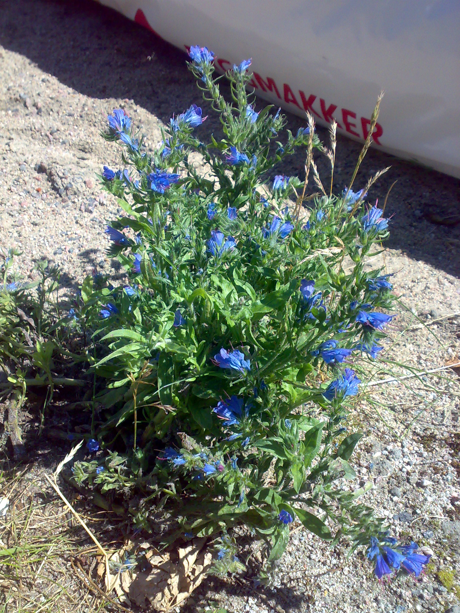 Echium vulgare